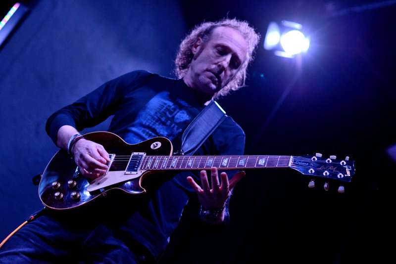 "General Stratocuster and the Marshals" - band member FabioFabbri singing at "Terzo Ponte" music hall